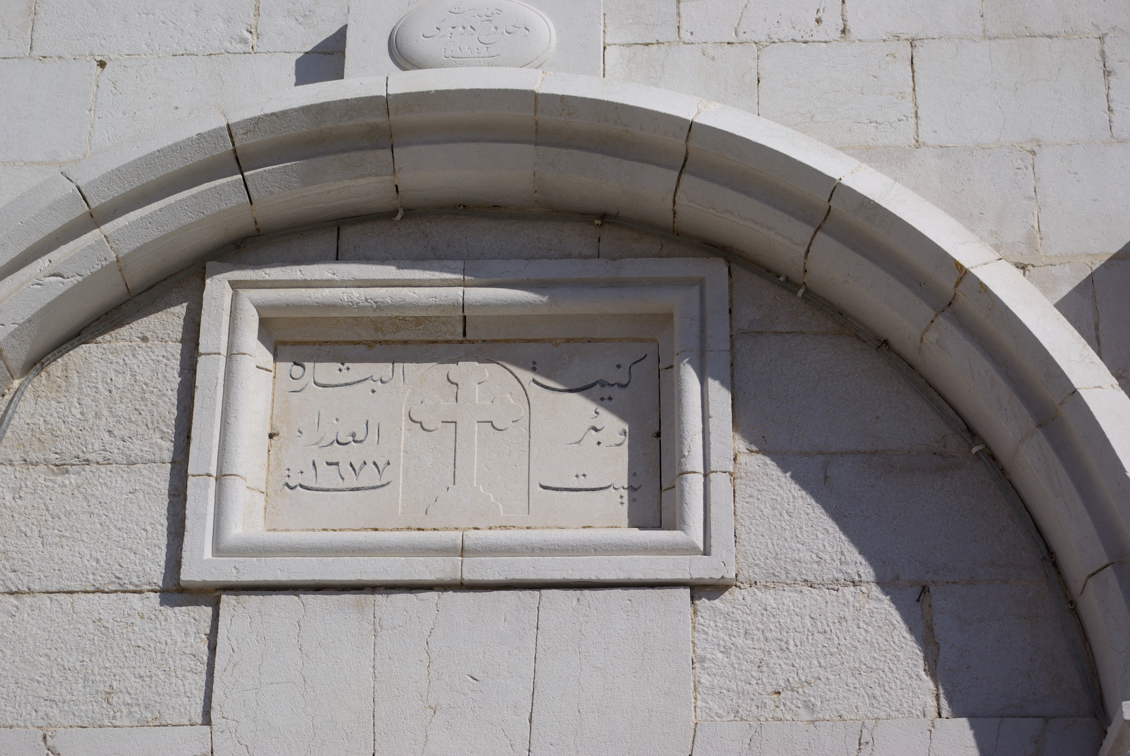 St. Gabriel's Greek Orthodox Church in Nazareth